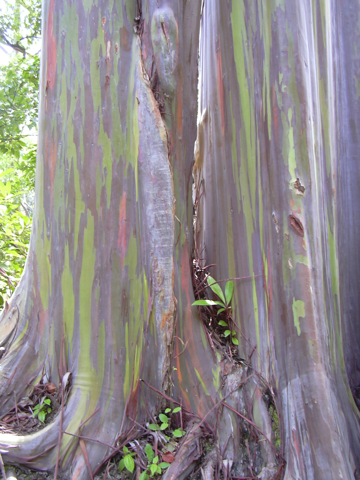 Eucalyptus deglupta (bark). Location: Maui, Hana Hwy